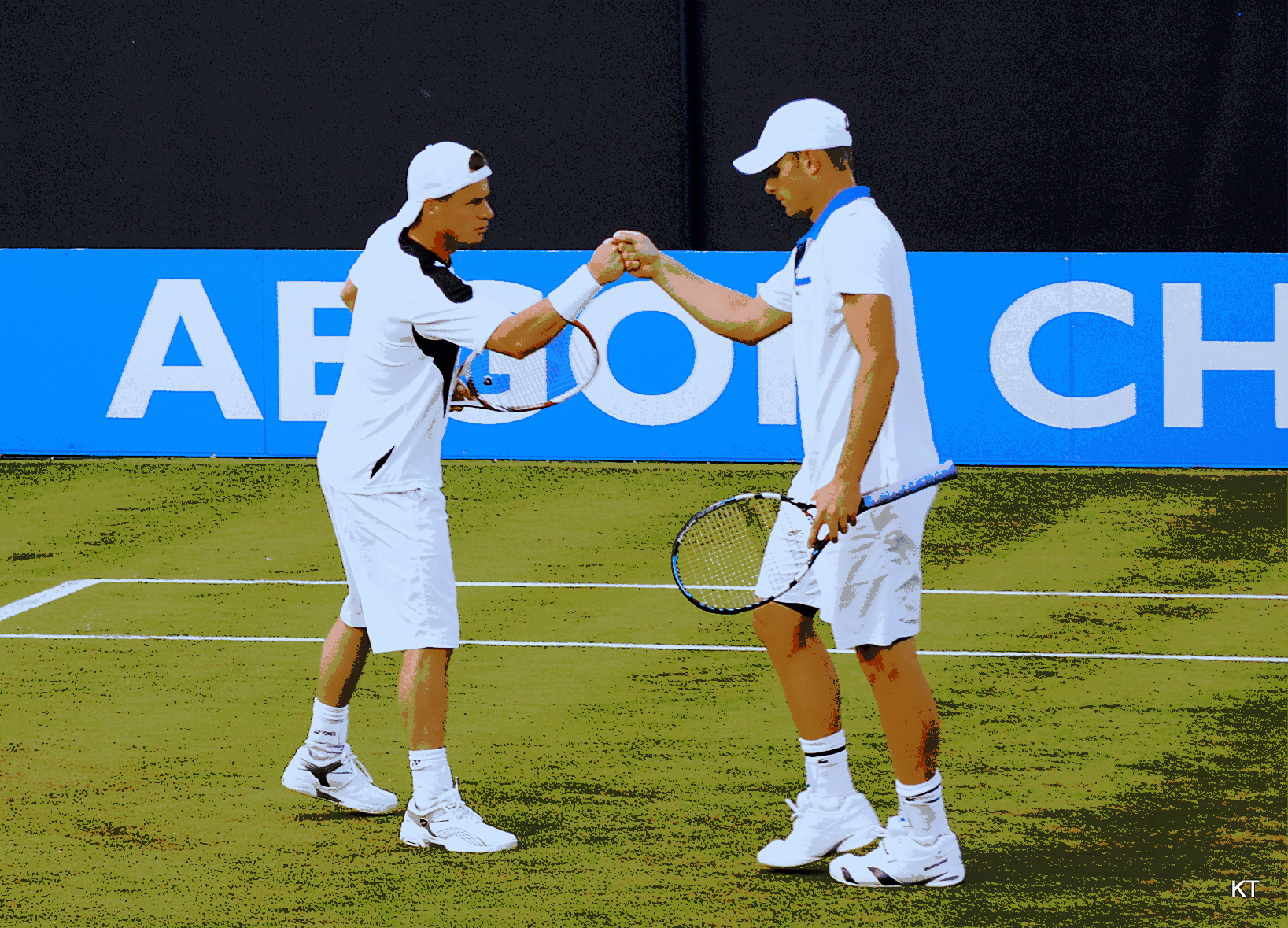 Lleyton Hewitt & Andy Roddick - doubles partners! Who'd've thought...? Aegon Championships, Queen's Club, 2012.